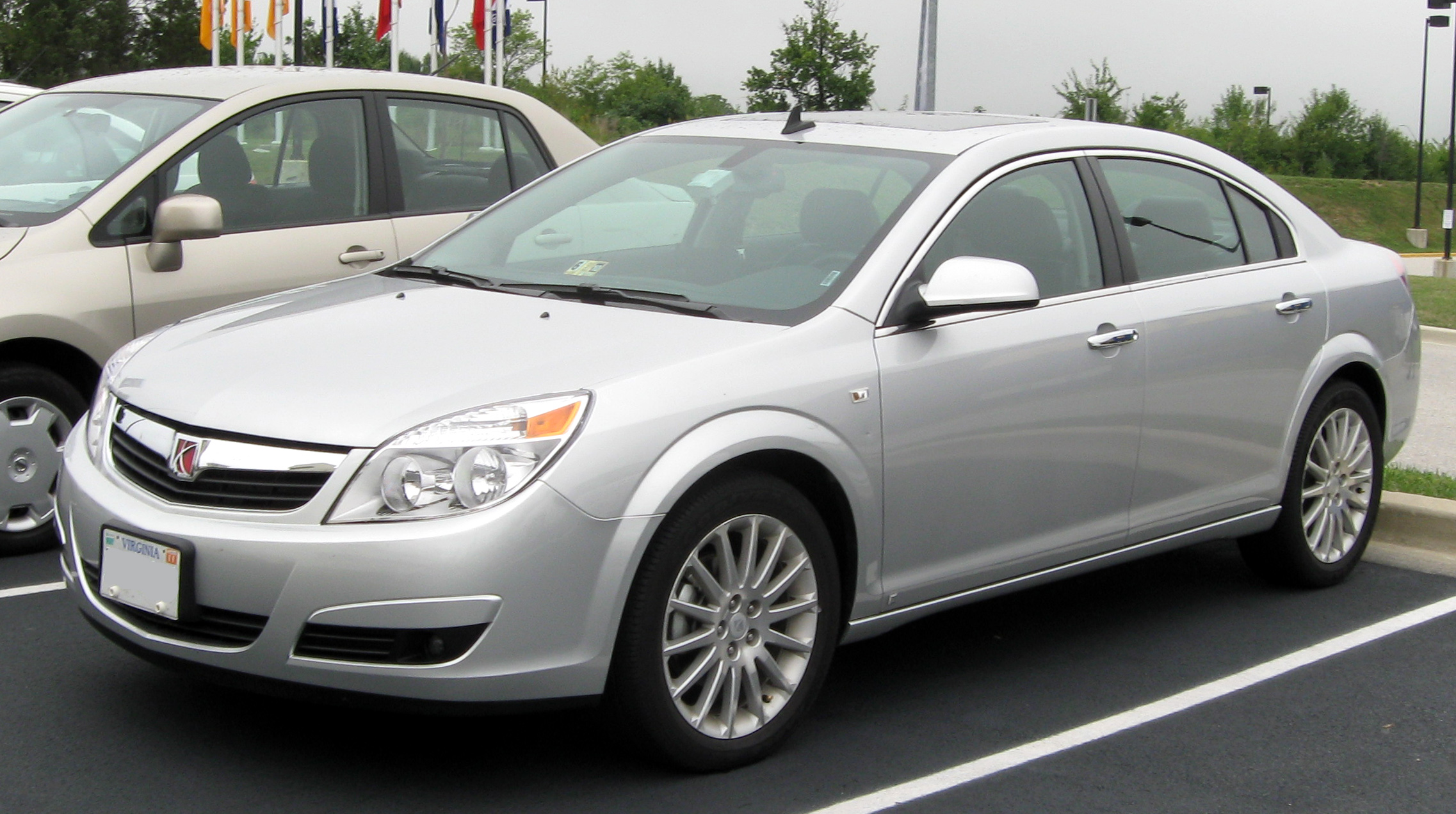 2007-2009 Saturn Aura photographed in College Park, Maryland, USA.